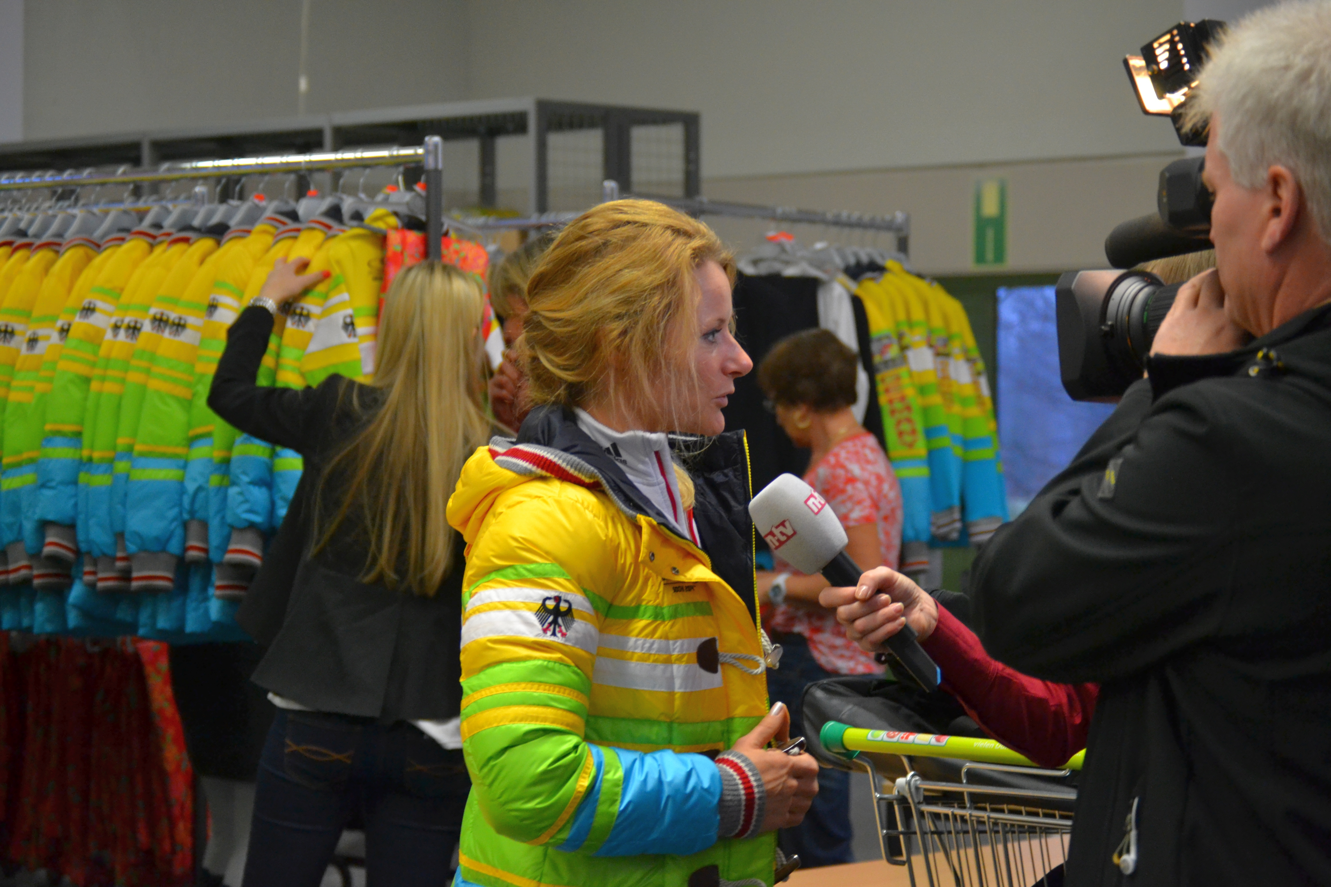 Outfitting the Olympic teams of Germany 2014; Media day January 20th 2014 at Military Airport Erding.